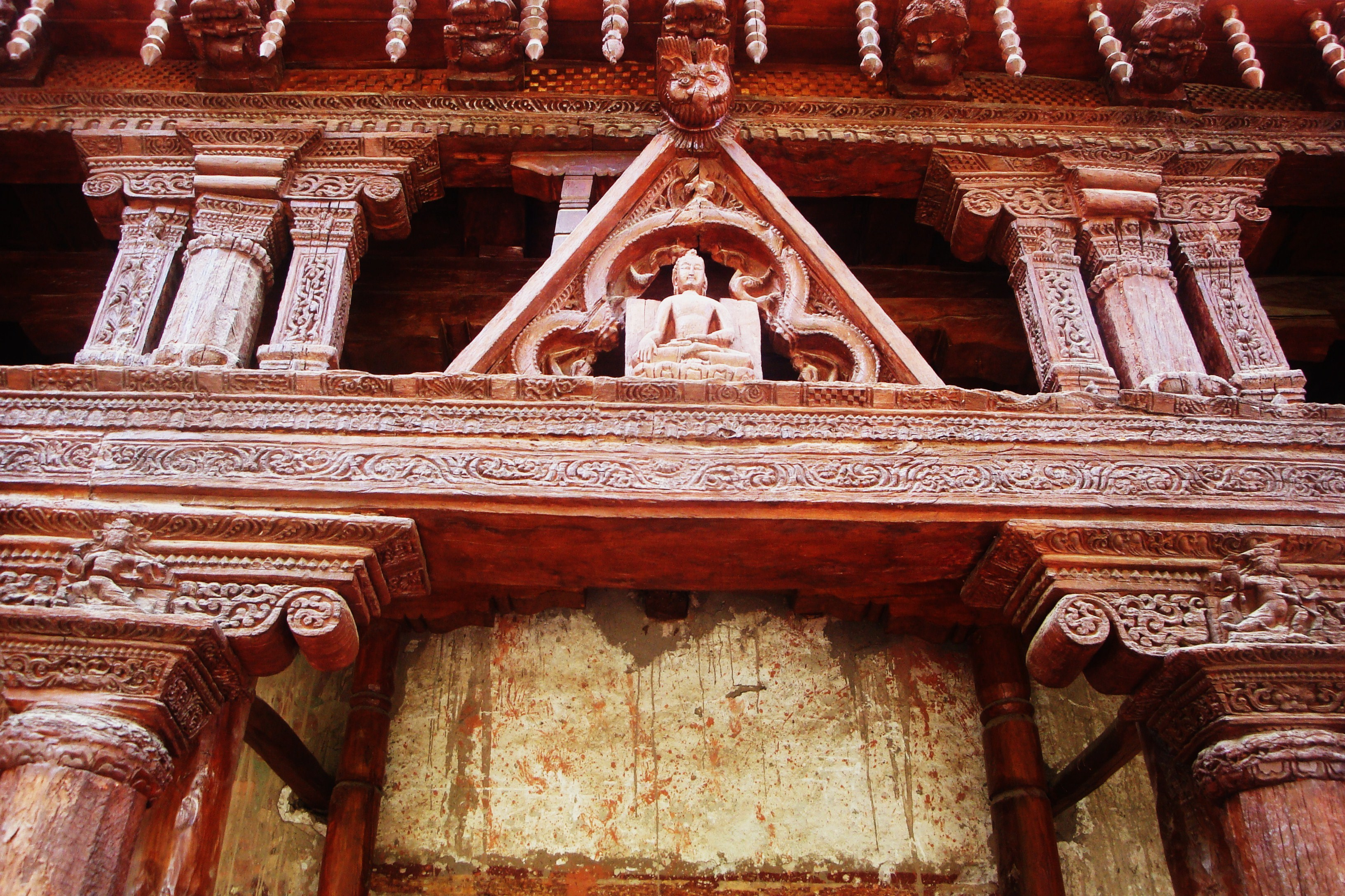 Buddhist Monasteries